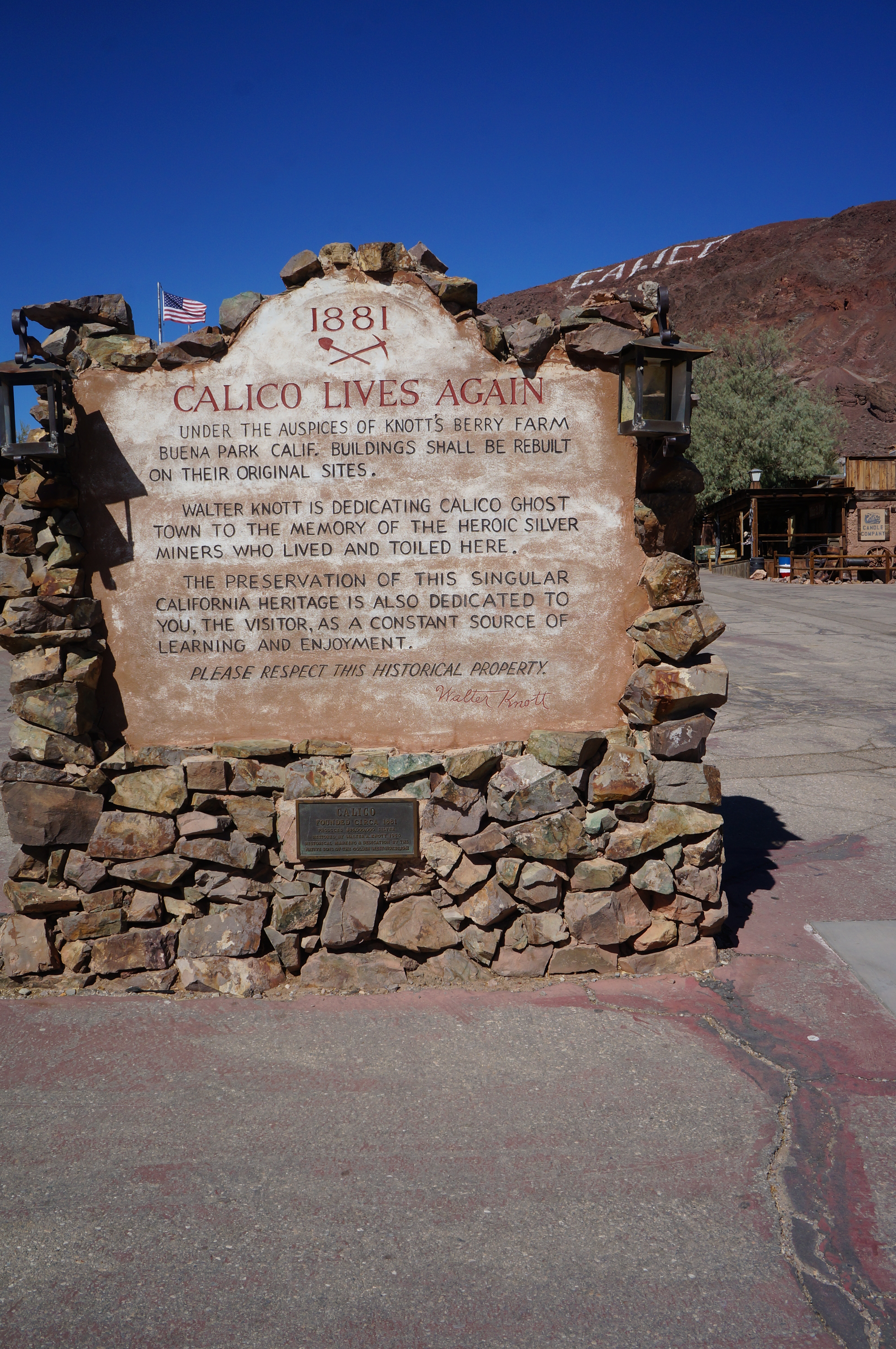 "Calico lives again" memorial in Calico Ghost Town — in the Mojave Desert, near Barstow in San Bernardino County, Calico Mountains and Southern California.